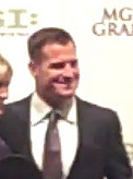 Actor George Eads